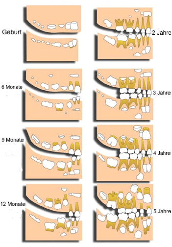 Teeth Deveploment